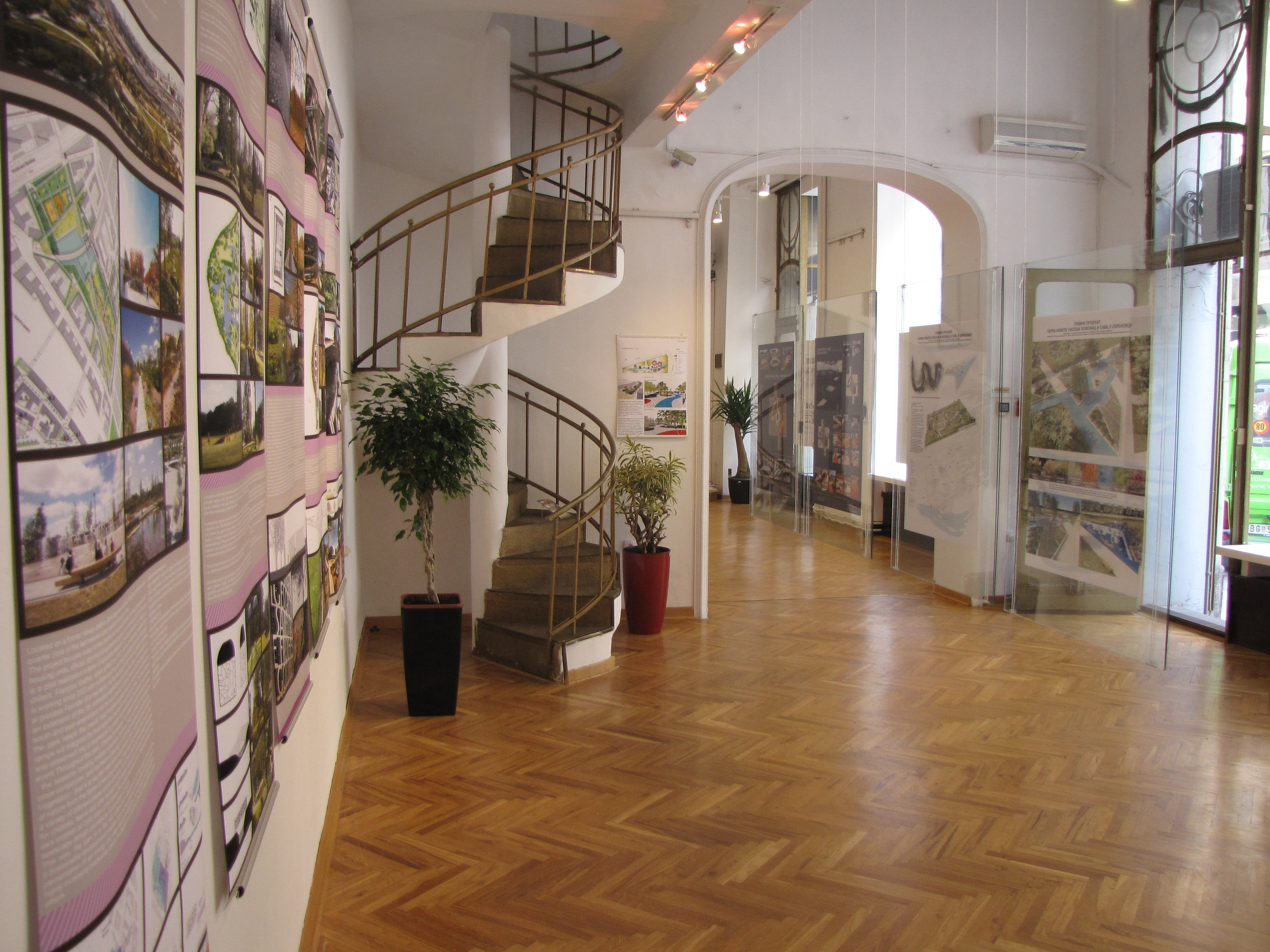 SASA Gallery of Science and Technology, The 5th Saloon of the Landscape Architecture, 2013